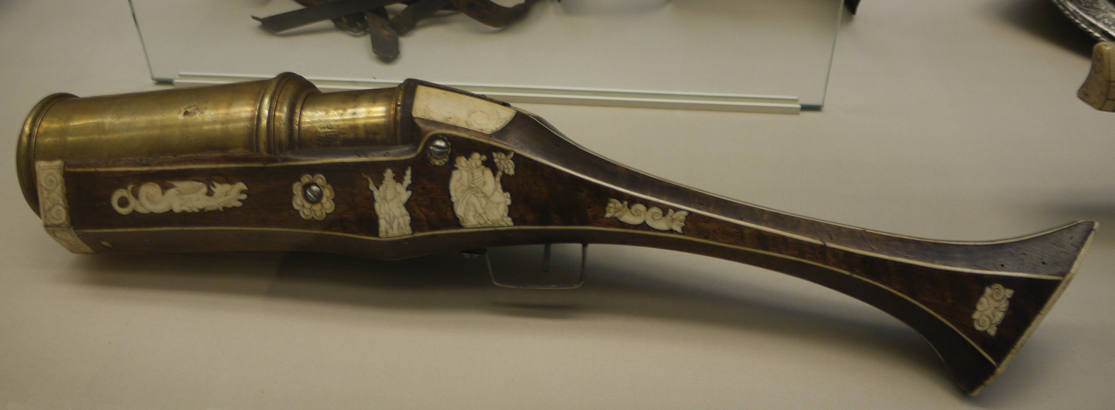 Wheellock and matchlock hand mortar dating from 1590s now in the british museum reg number 1881,8-2,135 or 1881,0802.135